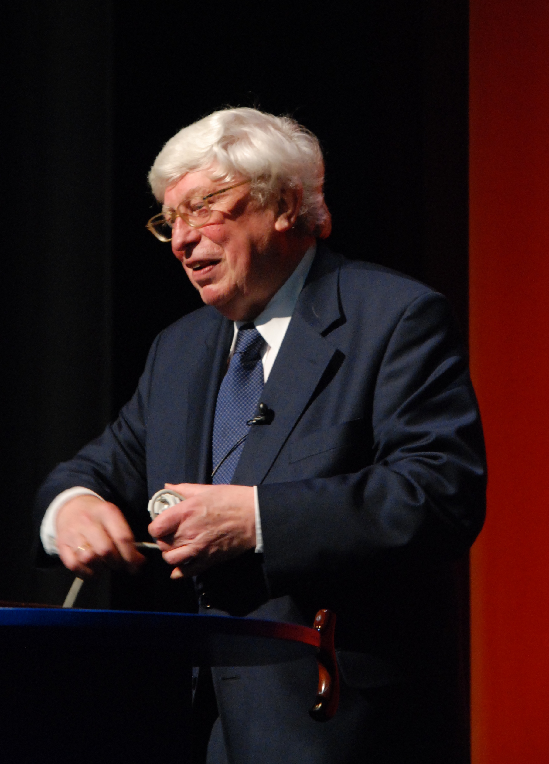 Gerhard Ertl giving a talk at the Urania Berlin